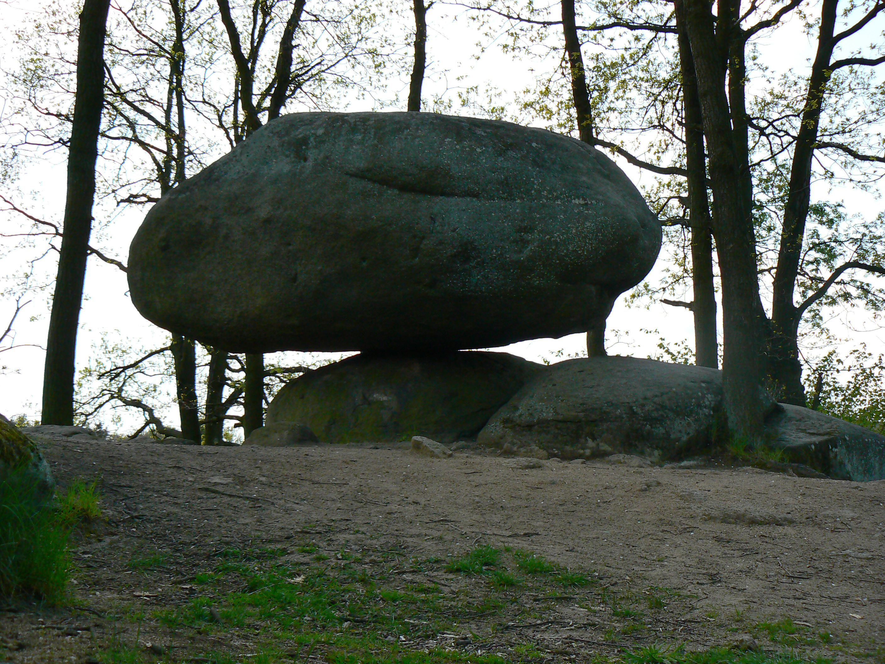 Rocking stone at Kadov, Czech Republic